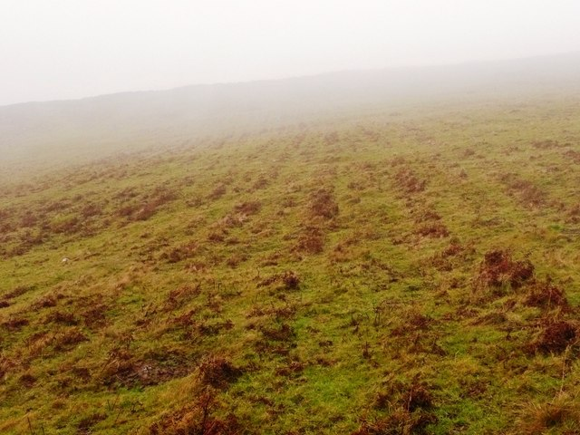 Bleak hillside with bracken Taken in December the bracken has died back, but the interesting thing is the linear pattern running across the hillside. Perhaps this is some indication of past cultivation.